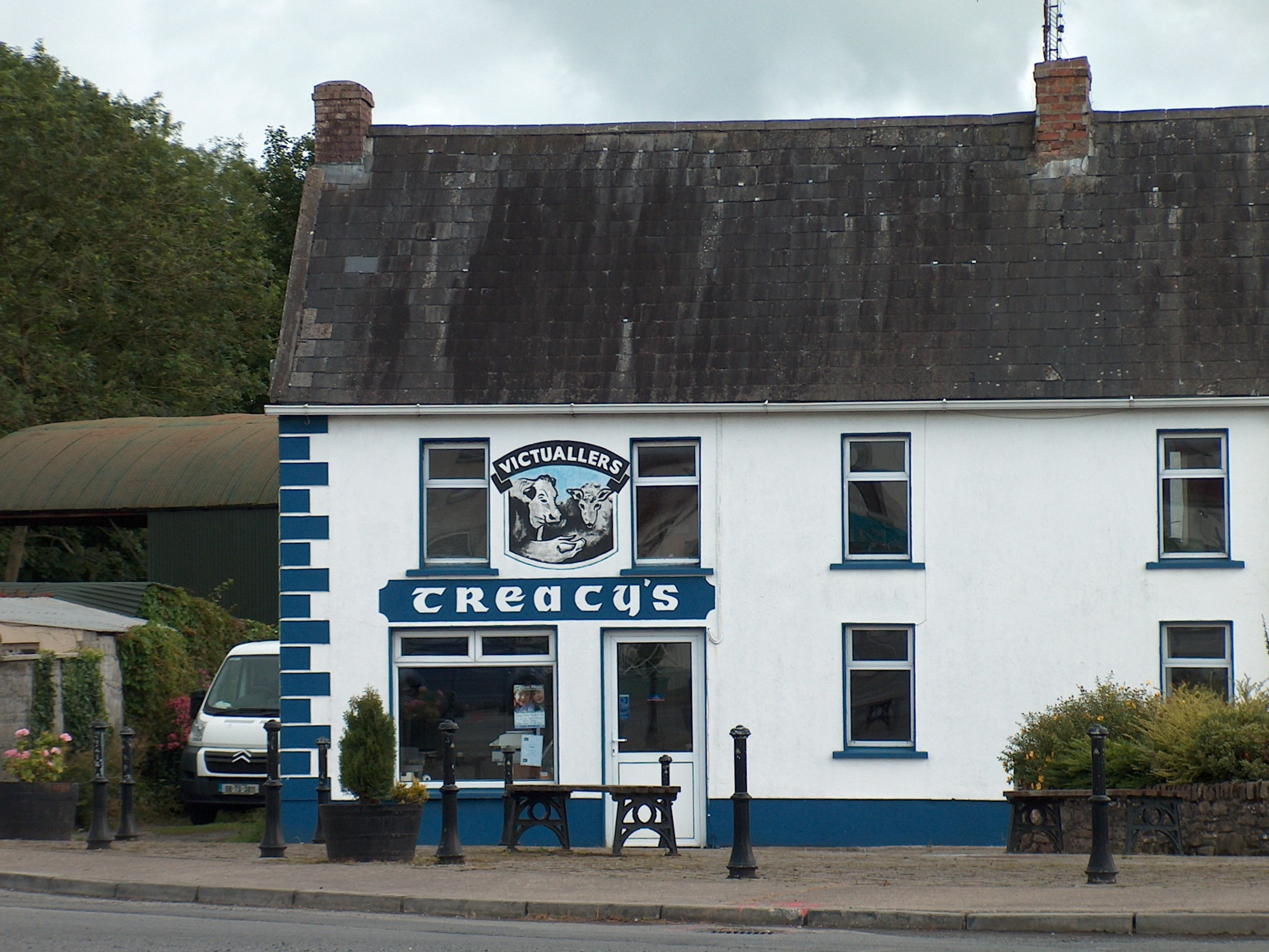 Treacy's Victuallers in the centre of Cappawhite